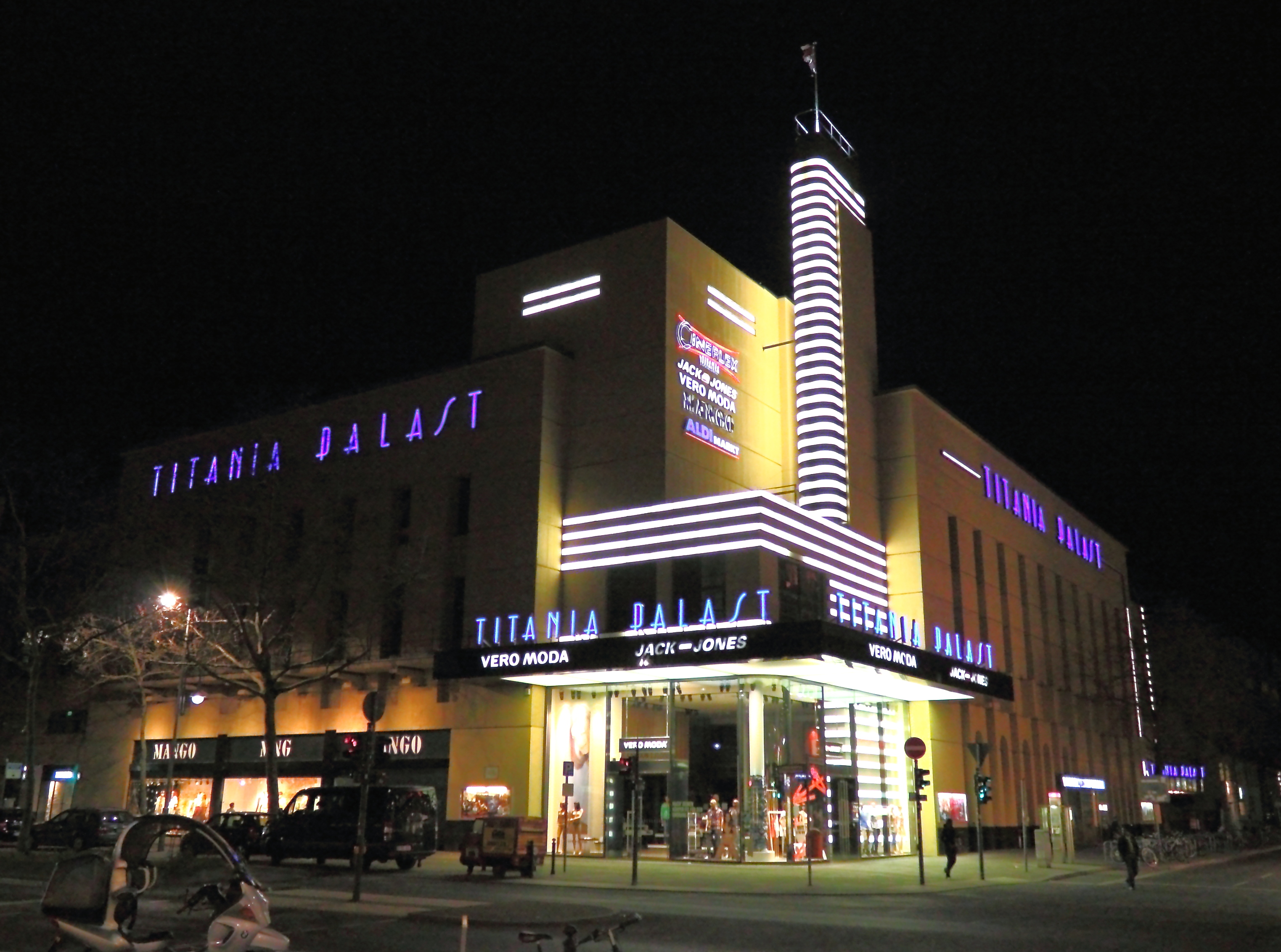 Titania-Palast, cinema opened in 1928, Berlin Steglitz